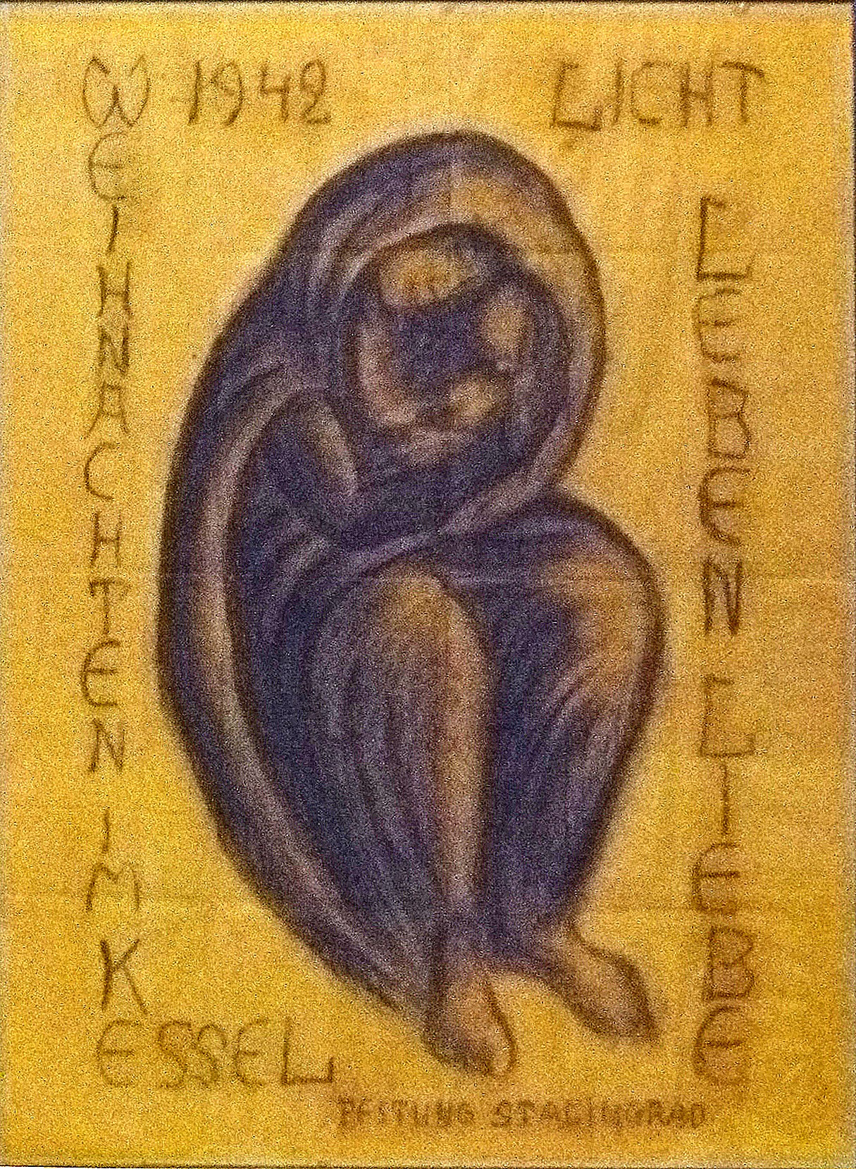 Charcoal drawing of the Stalingrad Madonna by Kurt Reuber; Kaiser Wilhelm Memorial Church, Berlin, Germany